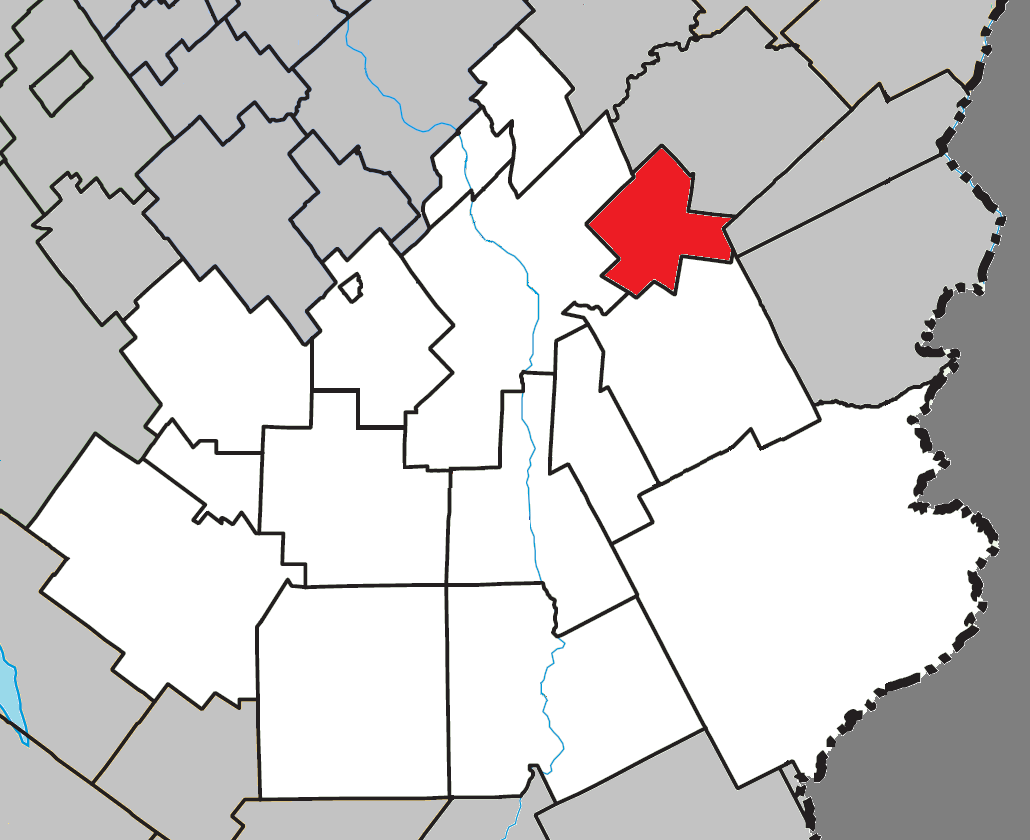 Location of Saint-Philibert, Quebec within Beauce-Sartigan Regional County Municipality.